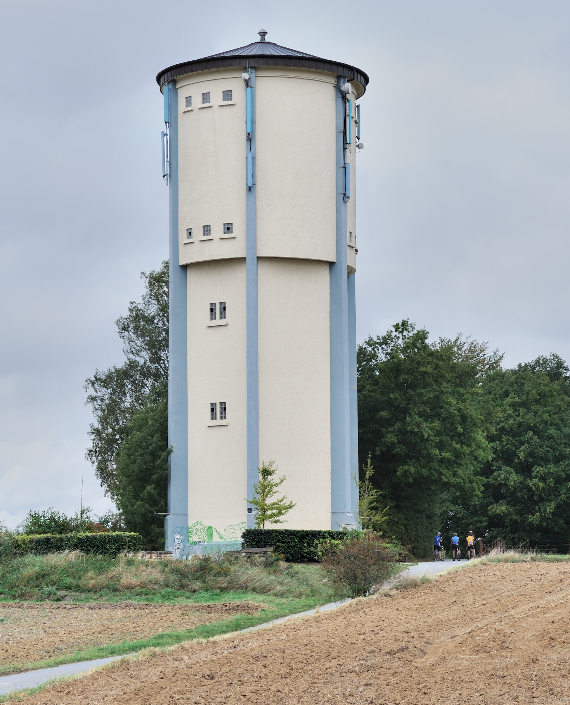 Luxembourg, Kleinbettingen: water tower built in 1953..